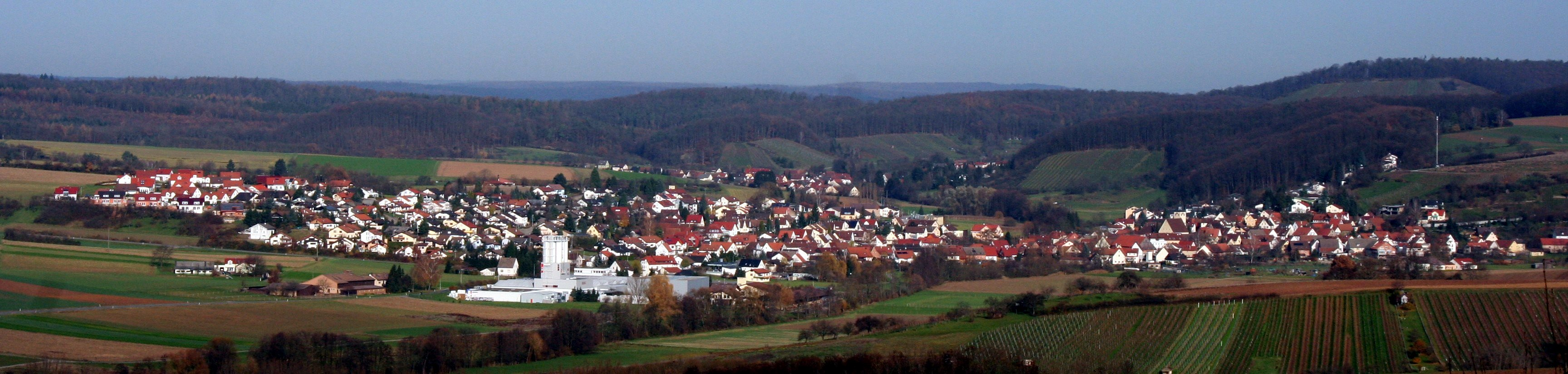 Untergruppenbach-Unterheinriet as seen from Helfenberg castle ruin